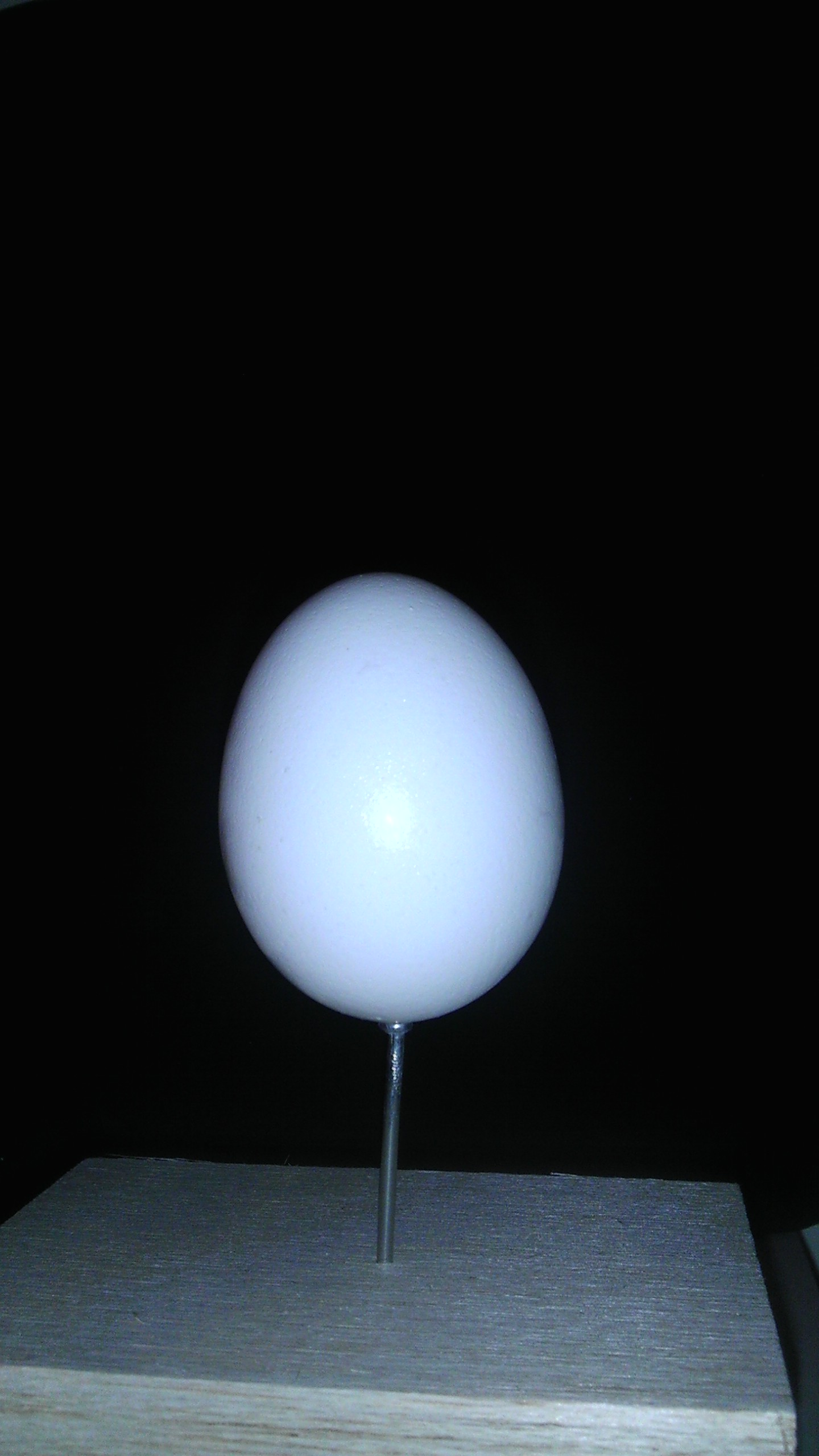 Egg balanced on 4mm nail head (December 5, 2013)